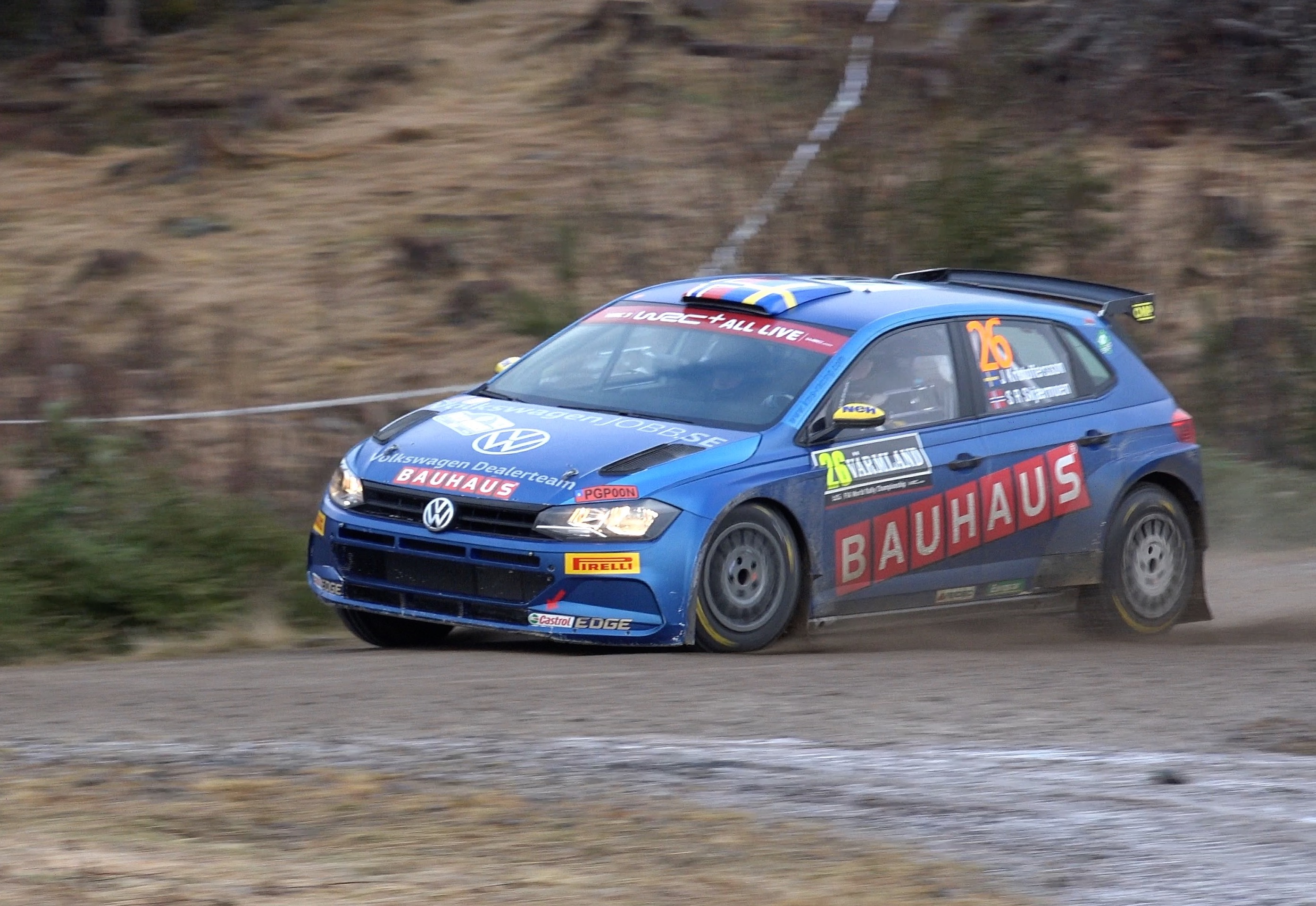 Johan Kristoffersson during Rally Sweden 2020.